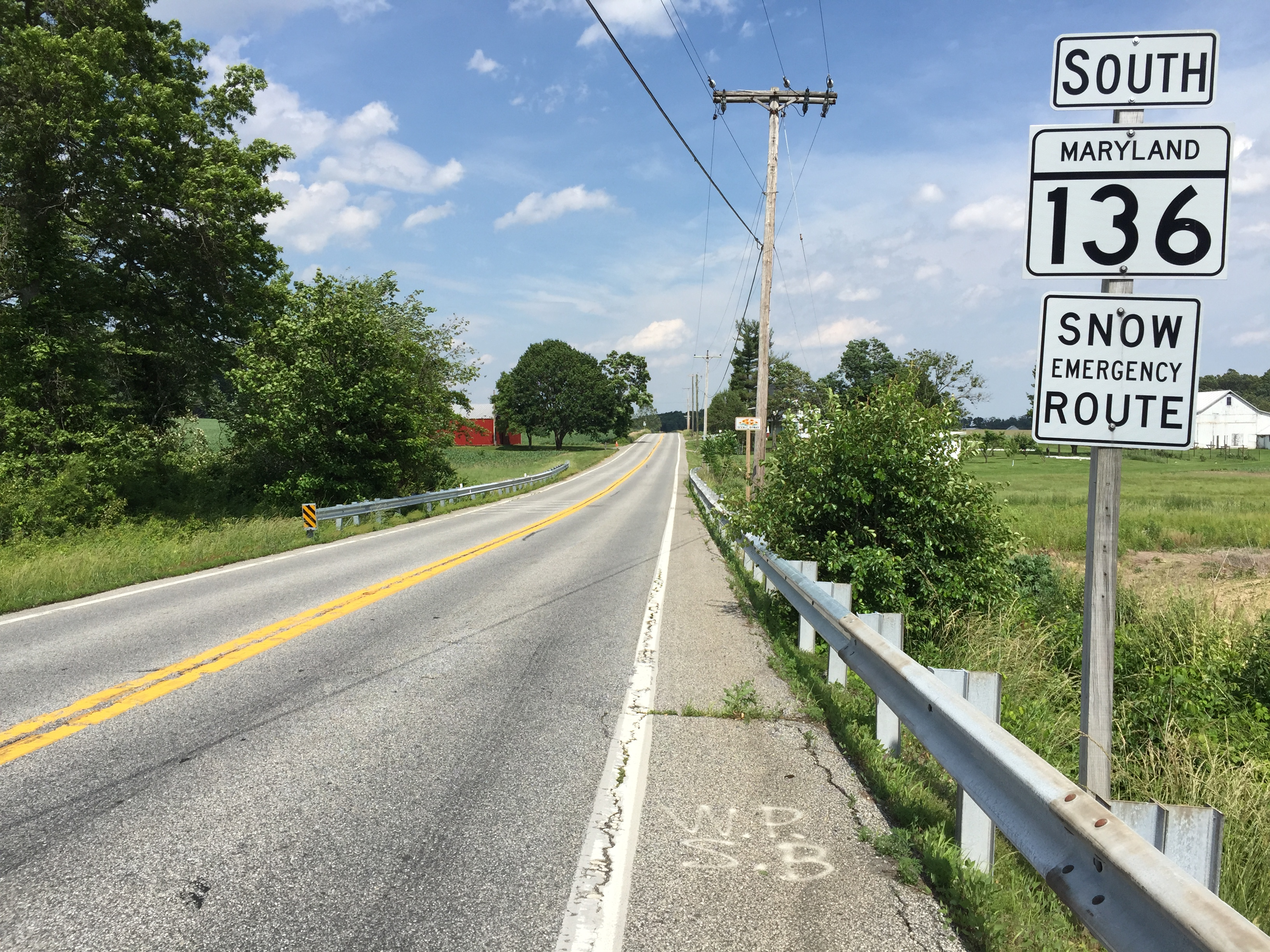 View south along Maryland State Route 136 (Harkins Road) just east of Maryland State Route 23 (Norrisville Road) in Norrisville, Harford County, Maryland